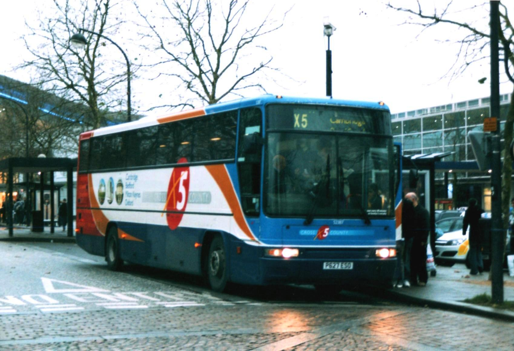 Stagecoach in Bedford 52387, a Volvo B10M with Plaxton Premiere body, in Milton Keynes on route X5 in December 2006